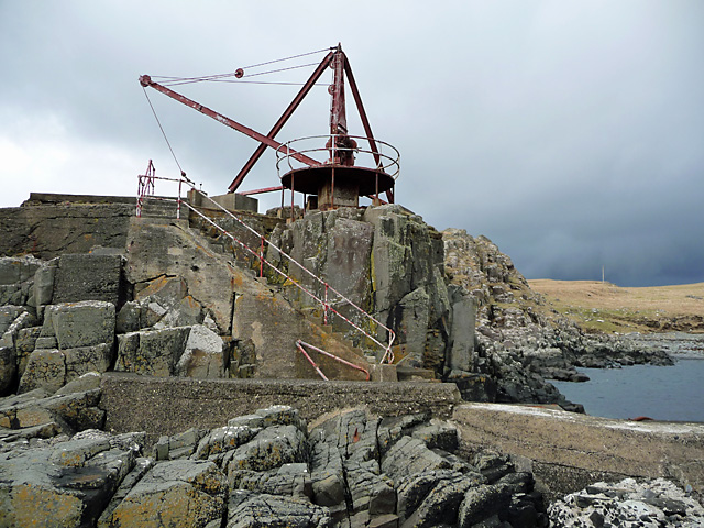 Neist jetty The jetty was the landing point for fuel and other supplies for the Neist Point lighthouse. Very reminiscent of Myst - Myst